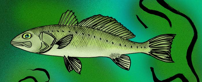 Reconstruction of the extinct drumfish, Lompoquia retropes